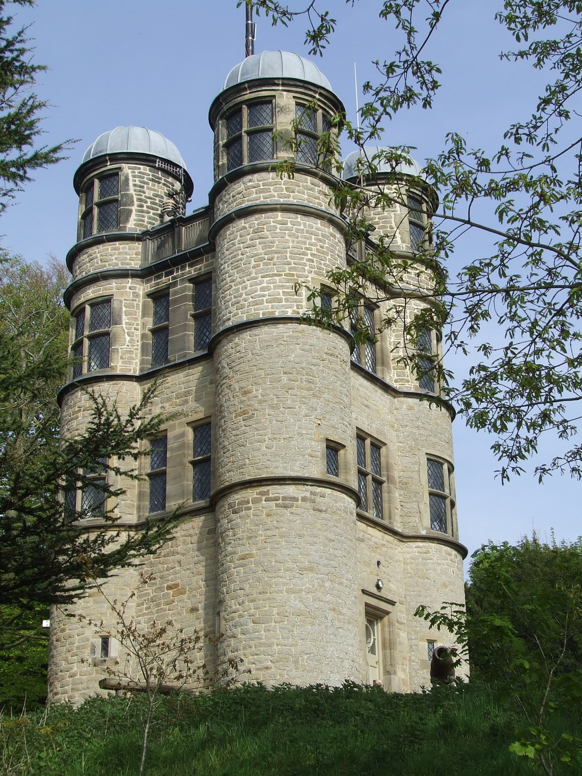 The hunting tower of Chatsworth House, Derbyshire, England